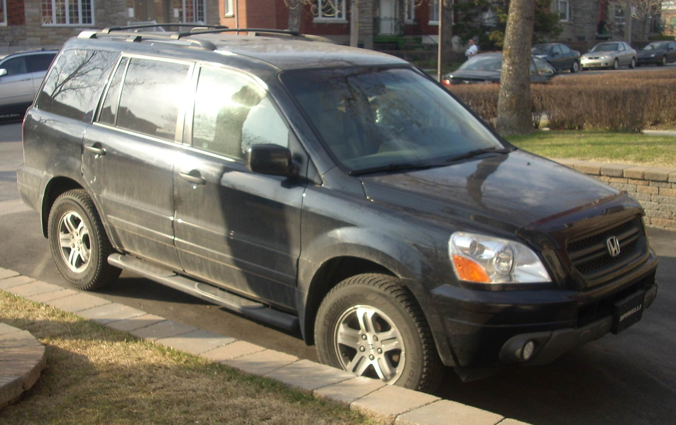 2003-2005 Honda Pilot photographed in Montreal, Quebec, Canada.